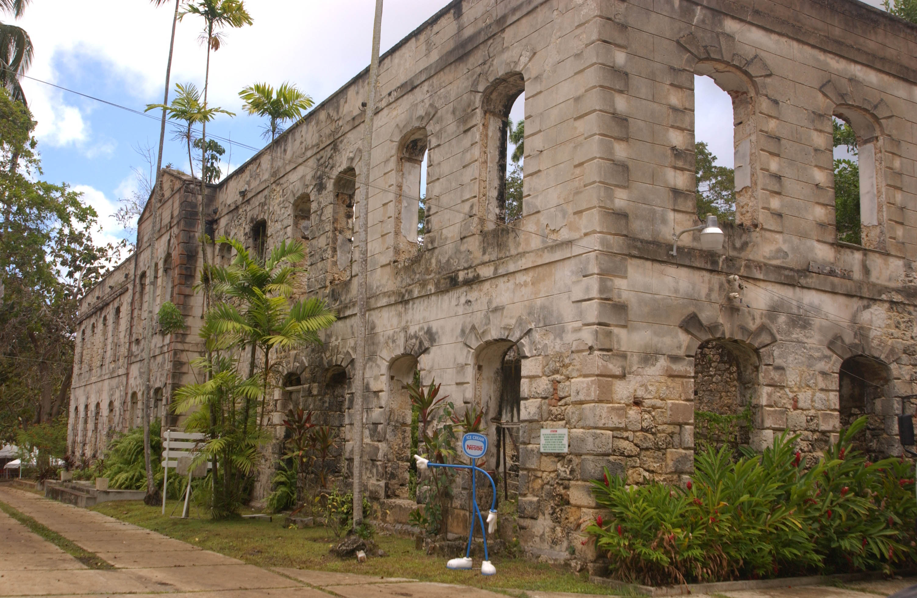 RUINS OF A PLANTATION GREAT HOUSE; PARTIALLY REBUILT IN 1957 FOR THE FILMING OF THE MOVIE, ISLAND IN THE SUN, STARRING HARRY BELAFONTE AND DOROTHY DANDRIDGE; FIRE SUBSEQUENTLY DESTROYED THE RESTORATION